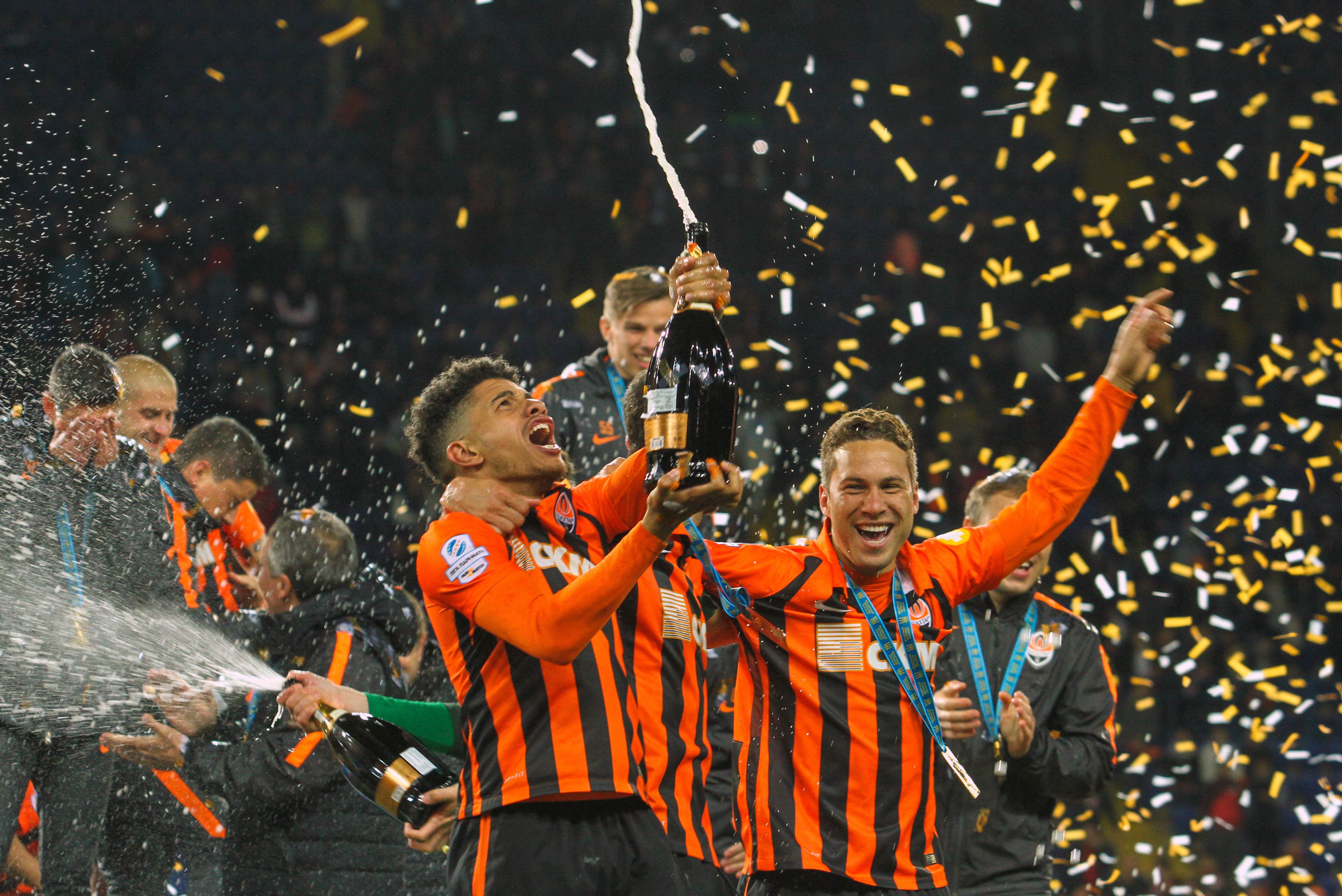 FC Shakhtar footballers celebrate victory during the final match of the Cup of Ukraine Shakhtar (Donetsk) - Dynamo (Kyiv) at the Metalist Stadium May 17, 2017